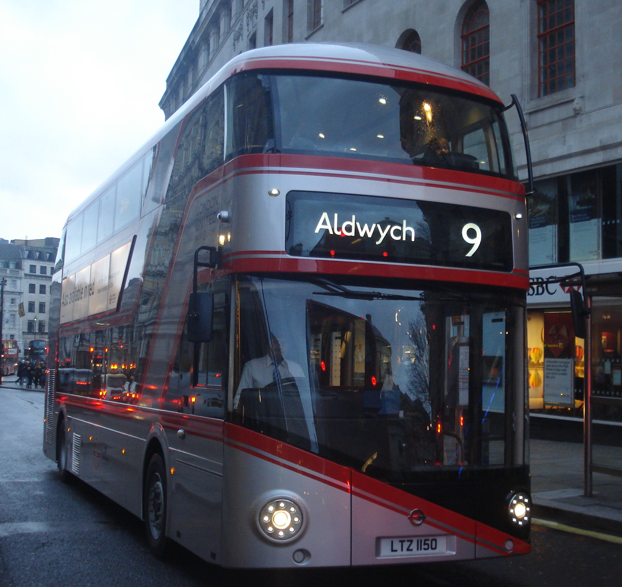 London United LT150 on Route 9, Charing Cross